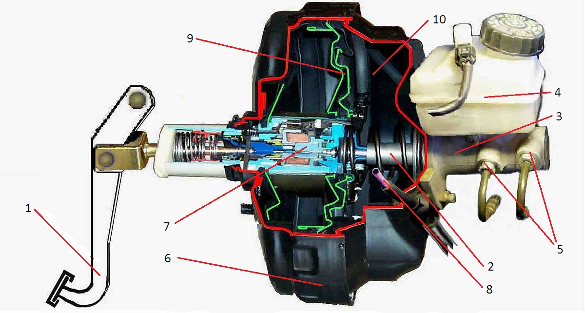 Added parts identification on existent file.